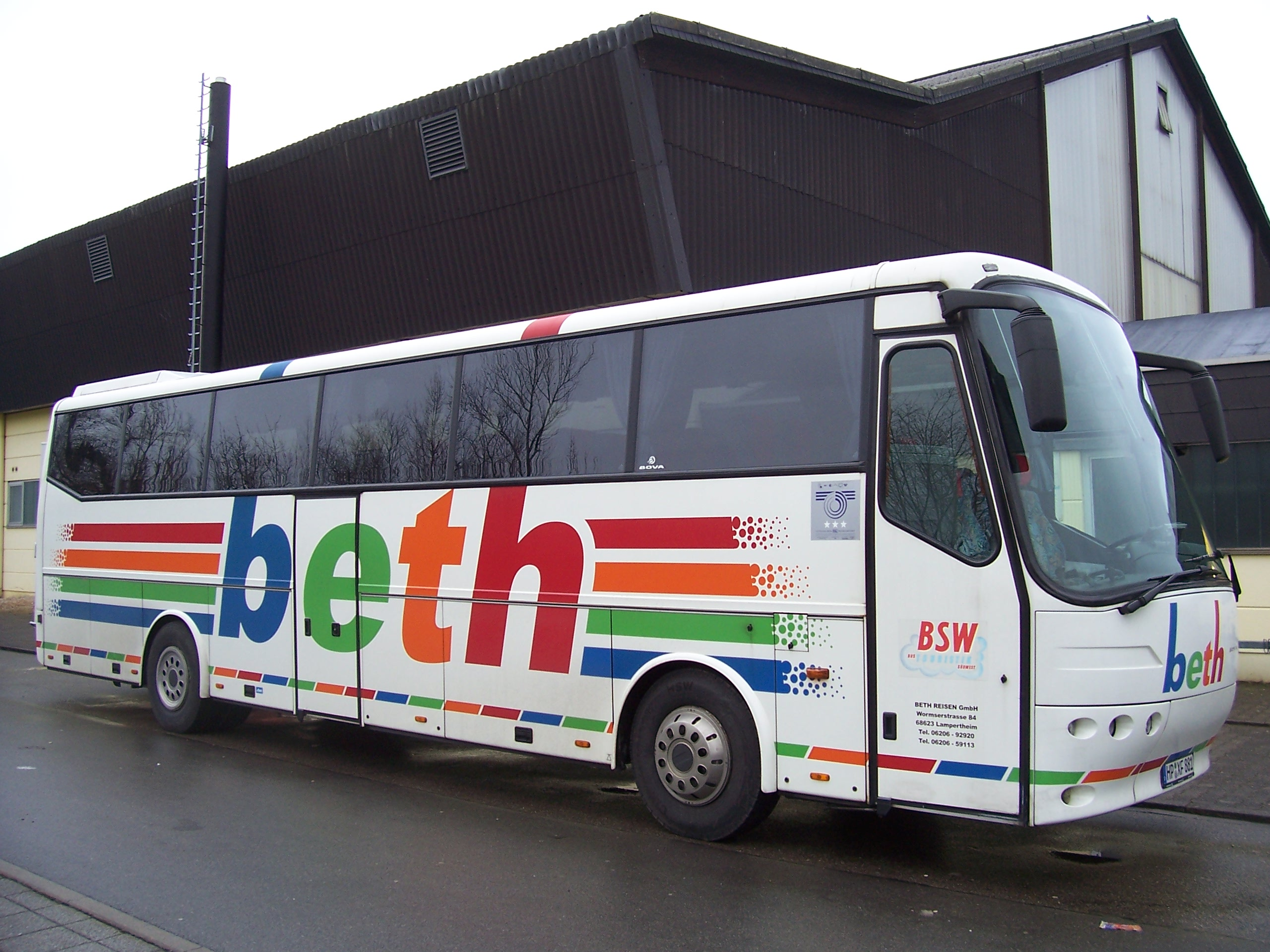 A Bova Touring bus in Viernheim, Germany My own photo